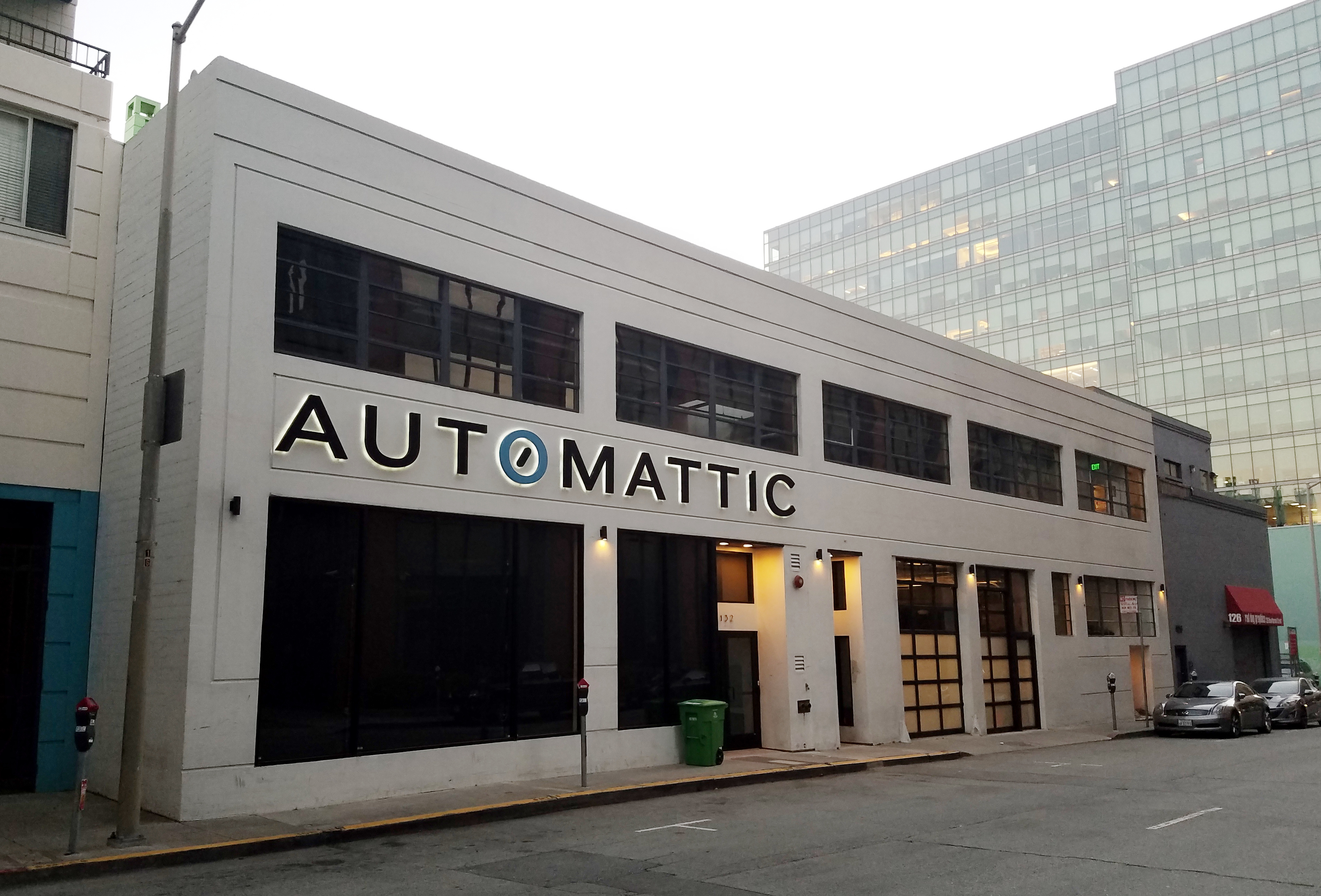 The office of Automattic Inc (known for ) at 140 Hawthorne Street in San Francisco, since closed